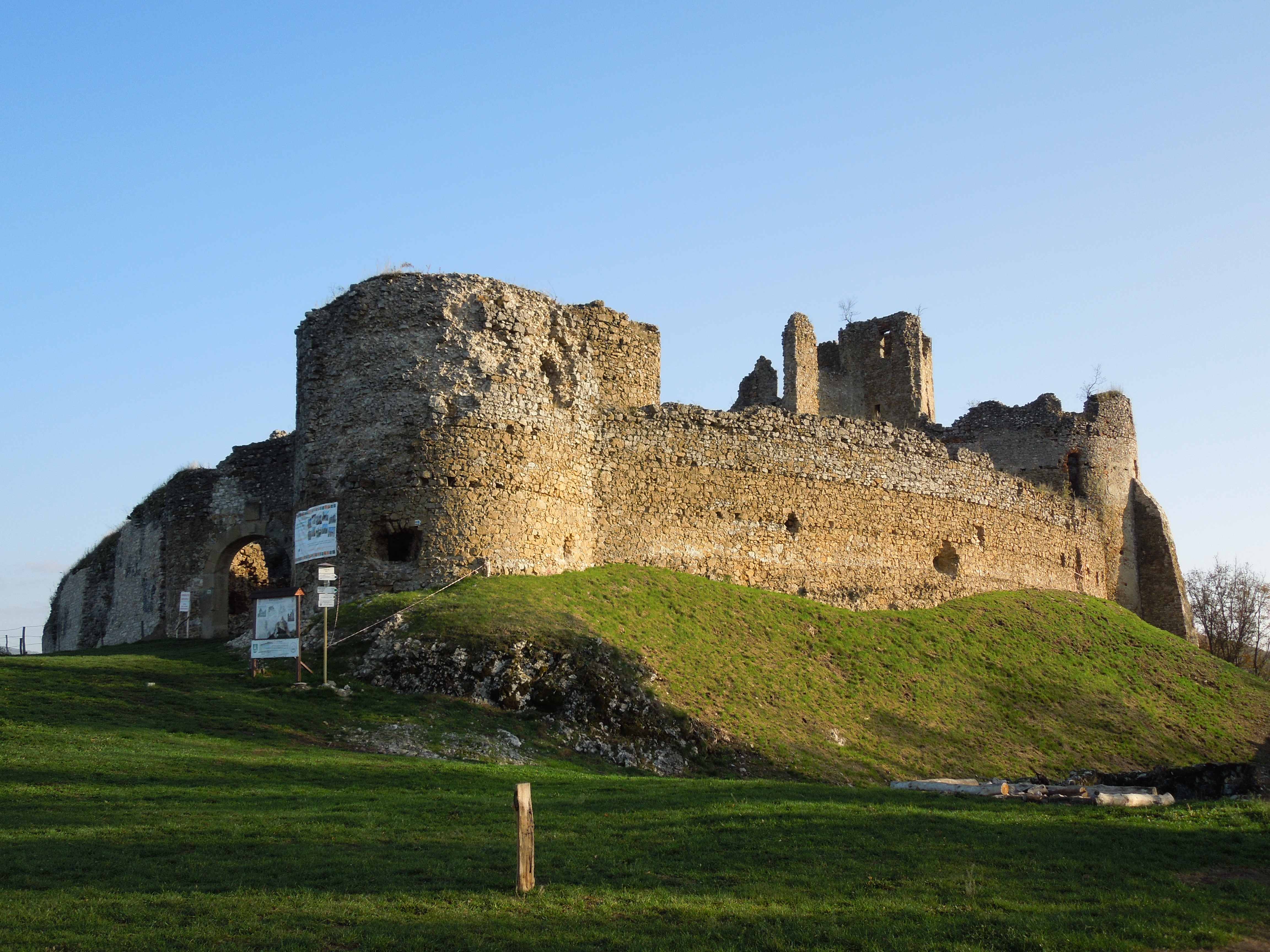 Jasenov Castle This is a photography of Natura 2000 protected area with ID SKUEV0250 This is a photography of Natura 2000 protected area with ID SKCHVU035